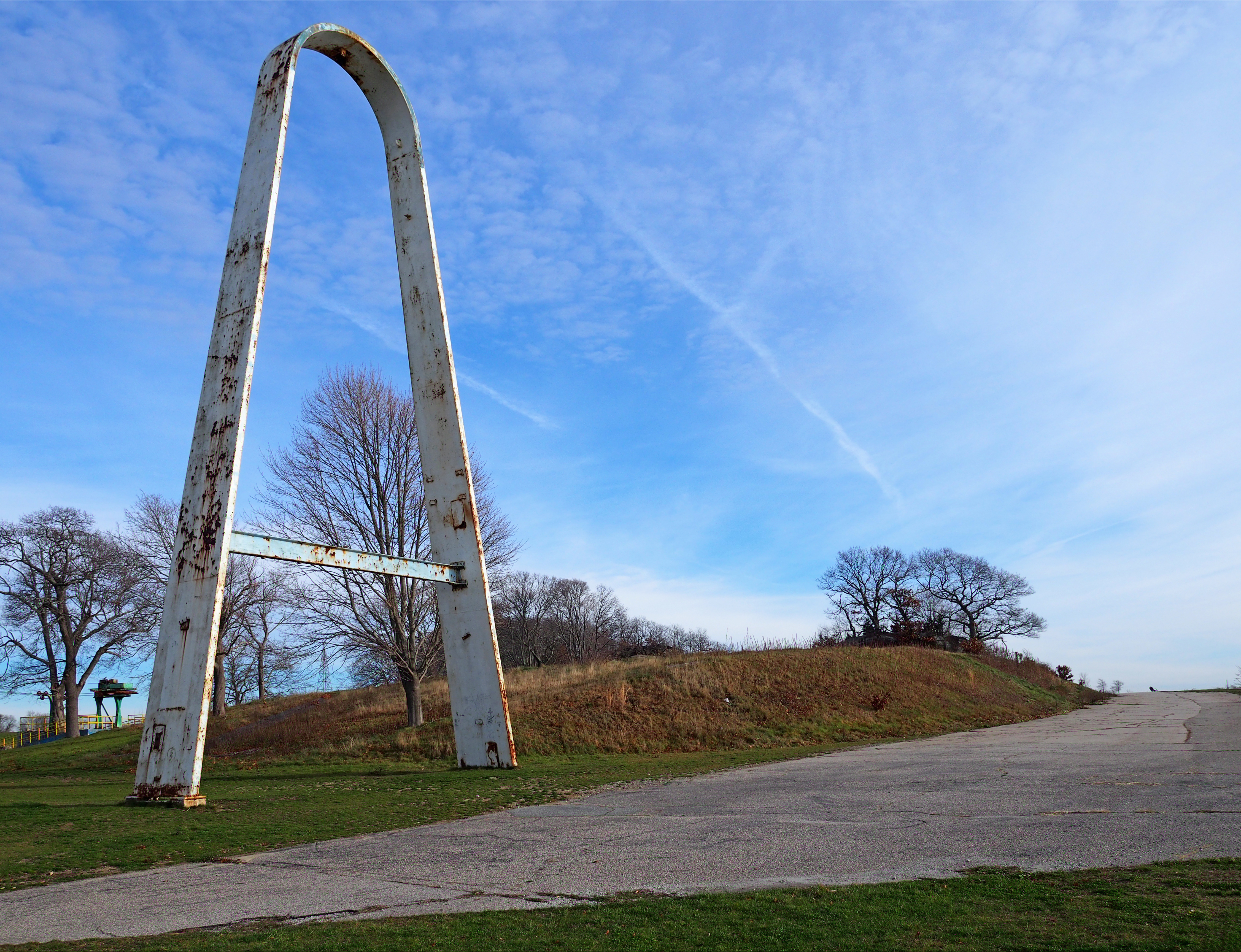 Arch at Rocky Point State Park in Warwick, Rhode Island. The arch is one of the few artifacts which remain of Rocky Point Park, an amusement park which closed in 1995. In the background, on the left, is the lower station of the Skyliner chairlift ride.